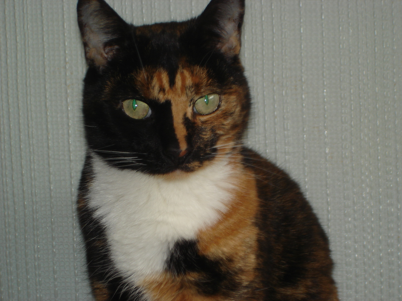 A domestic cat with tortoiseshell colouring, including a characteristic "split-face" pattern with black on one side and orange on the other, and a dividing line down the bridge of the nose.